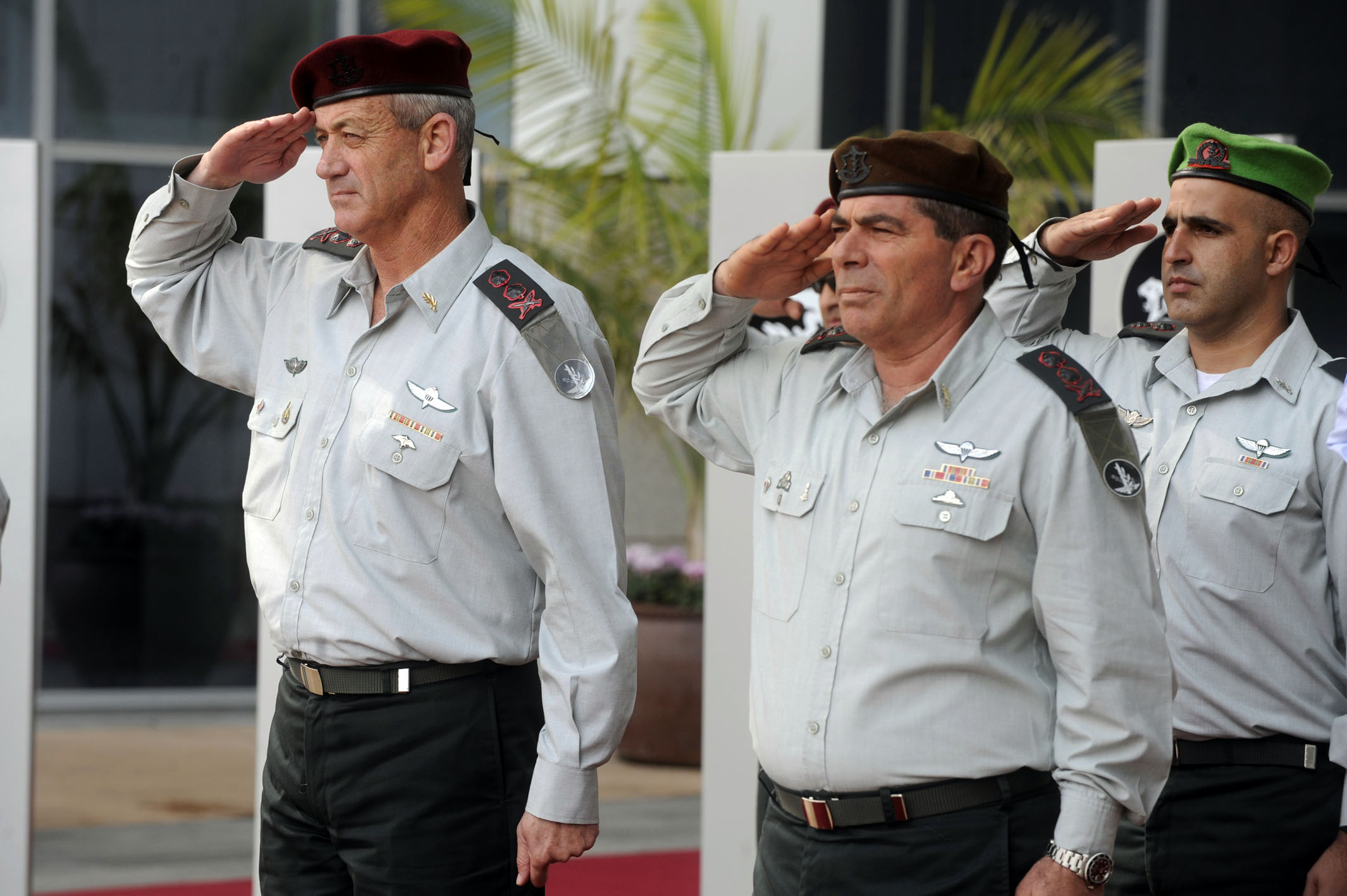 February 14, 2011. Lt. Gen. Gabi Ashkenazi receives an honor guard as his four year tenure of Chief of Staff and 40 years of service in the IDF comes to a close. The honor guard took place today at the IDF Kirya Compound Headquarters in Tel Aviv. Lt. Gen. Benny Gantz will succeed Lt. Gen. Gabi Ashkenazi as Chief of the General Staff.